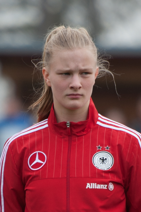 UEFA European Women's U17 Championship elite round Germany vs. Switzerland, 2016-03-19